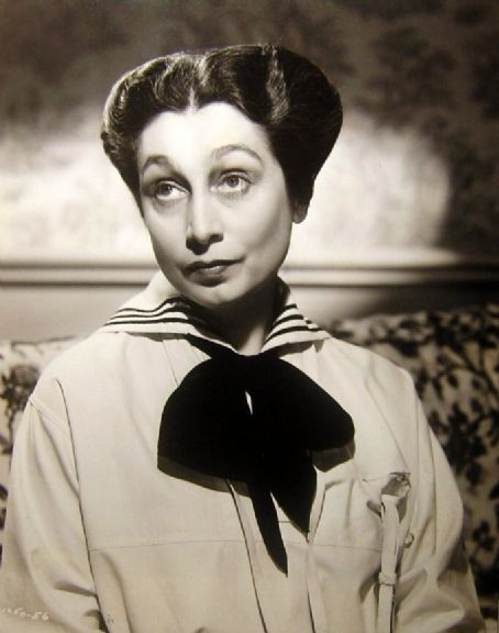 Promotional photograph of actor Aline MacMahon (1940s)